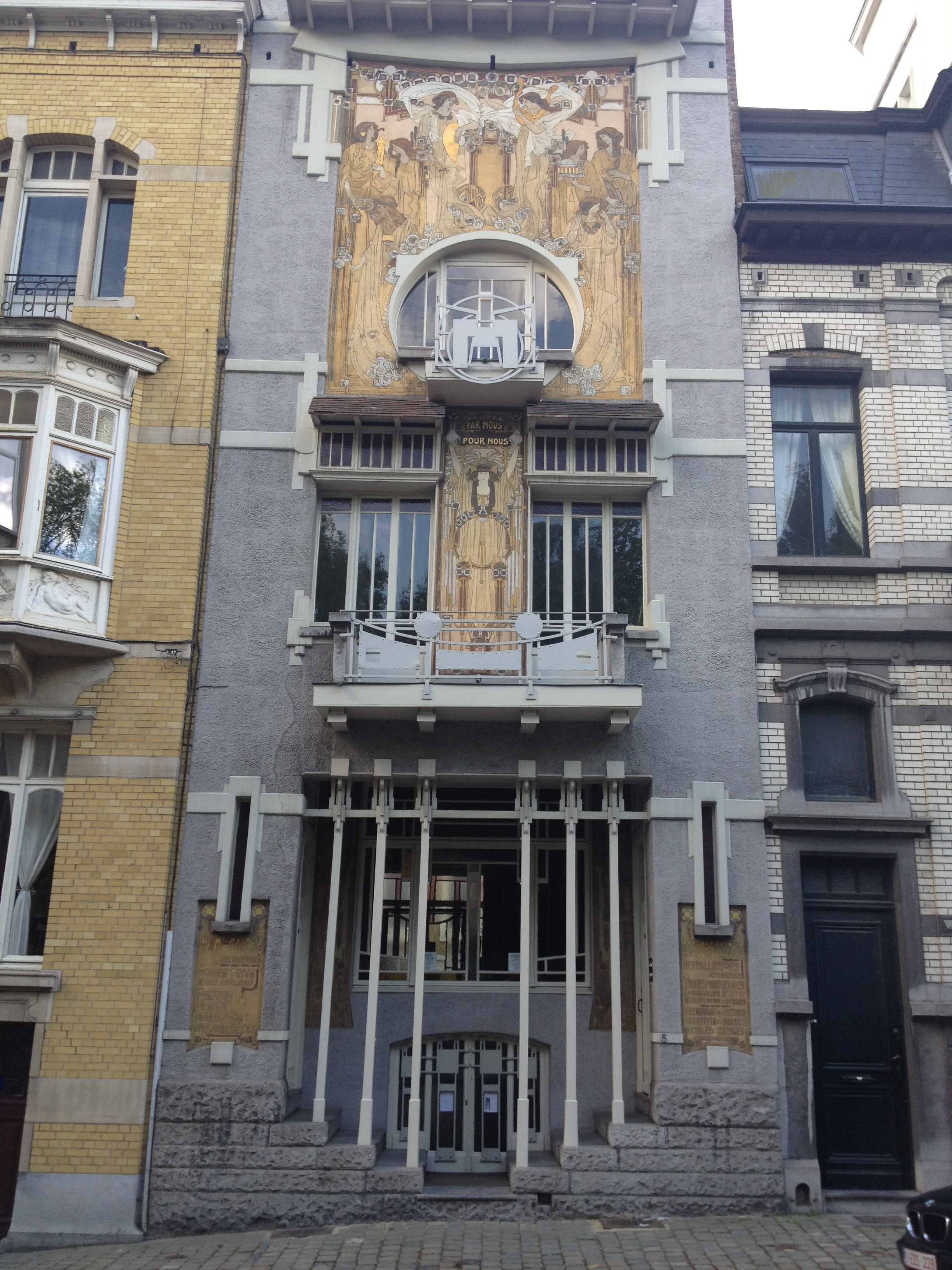 Maison Cauchie in Brussels